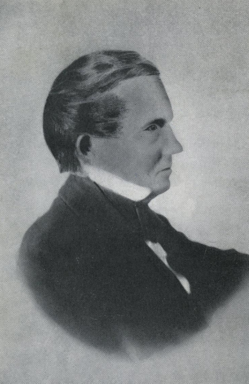 George Fitzhugh, circa 1855, taken before Fitzhugh-Wendell Phillips debate in New Haven, Conn., Encyclopedia of Virginia